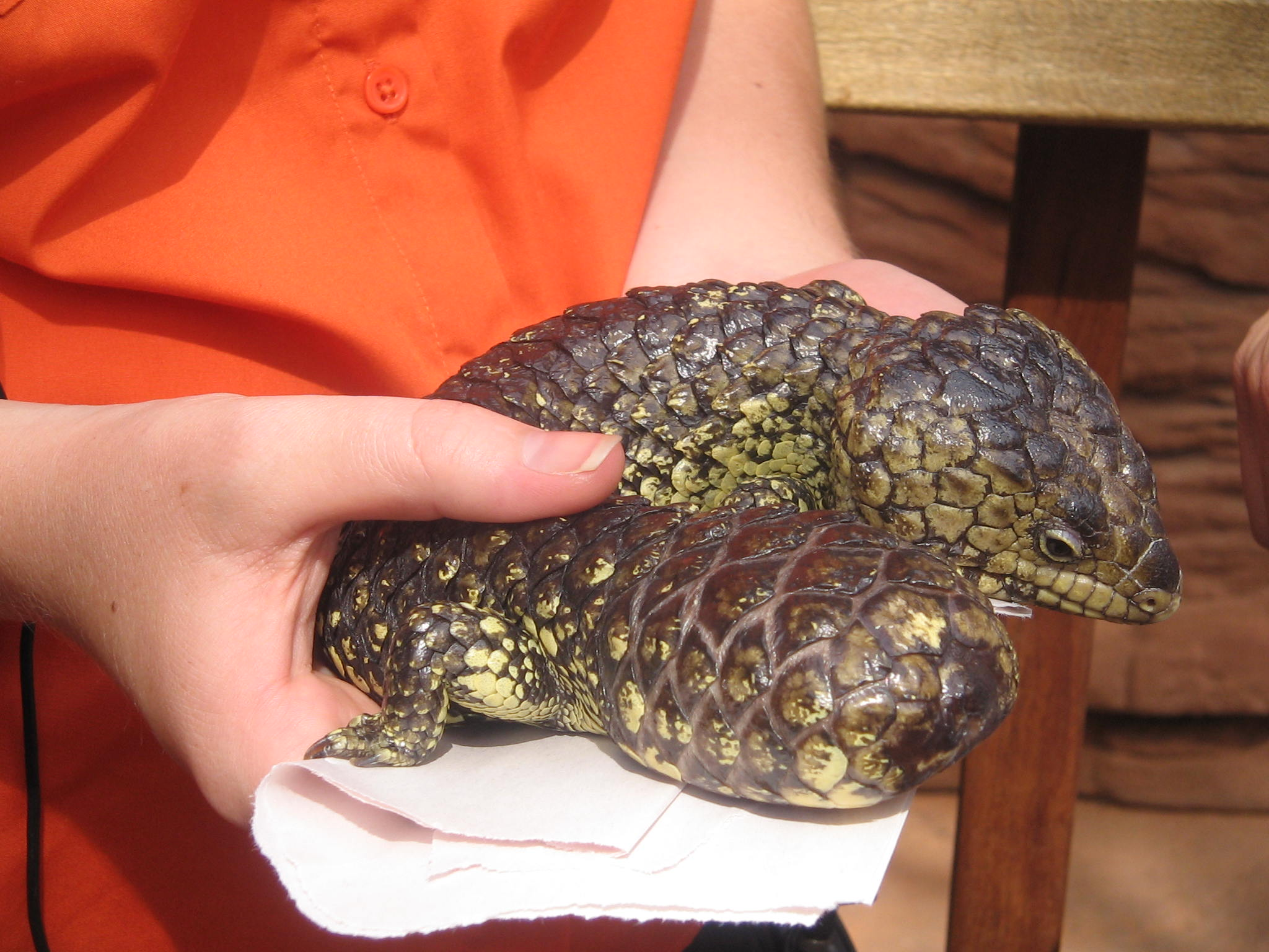 Shingleback lizard Australia